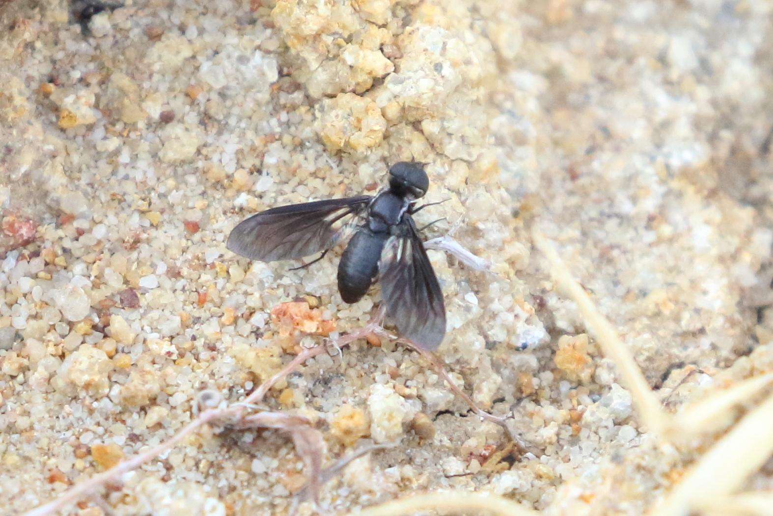 Pseudopenthes fenestrata. Species of insect.